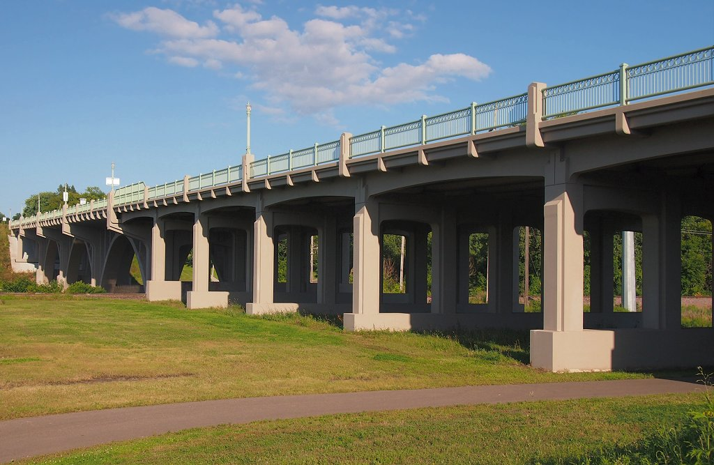 Faribault Viaduct, Faribault, Minnesota, USA. Viewed from the west partway up its embankment near sundown in summer to get light on the north-northwest side.